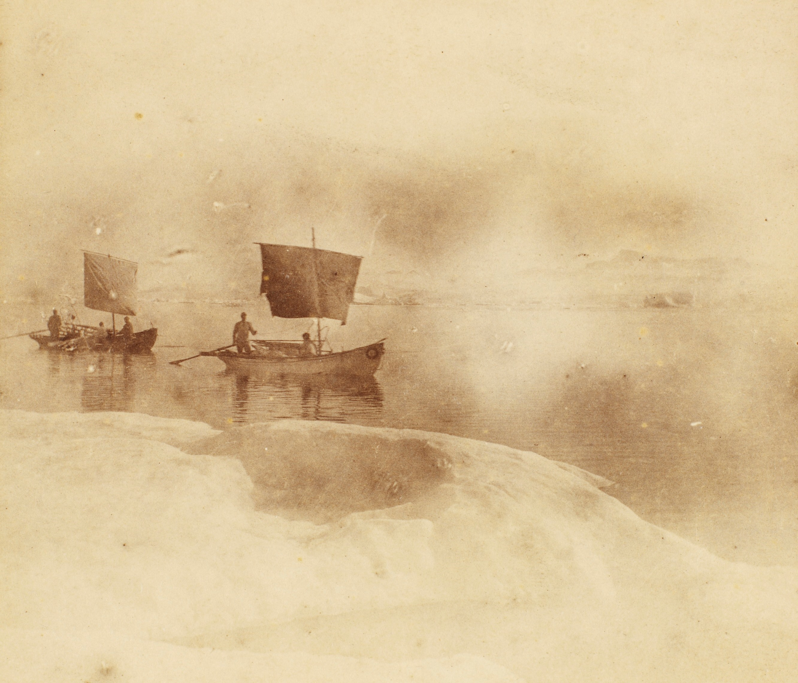 The last sailing before the members of the expedition start their skiing journey across the inland ice. Photographed from an ice floe. One of the pictures from the expedition to Greenland in the period July 1888 to May 1889. Fridtjof Nansen together with 5 other Norwegian participants crossed Greenland in the course of a 42-day skiing trip from the east to the west coast.